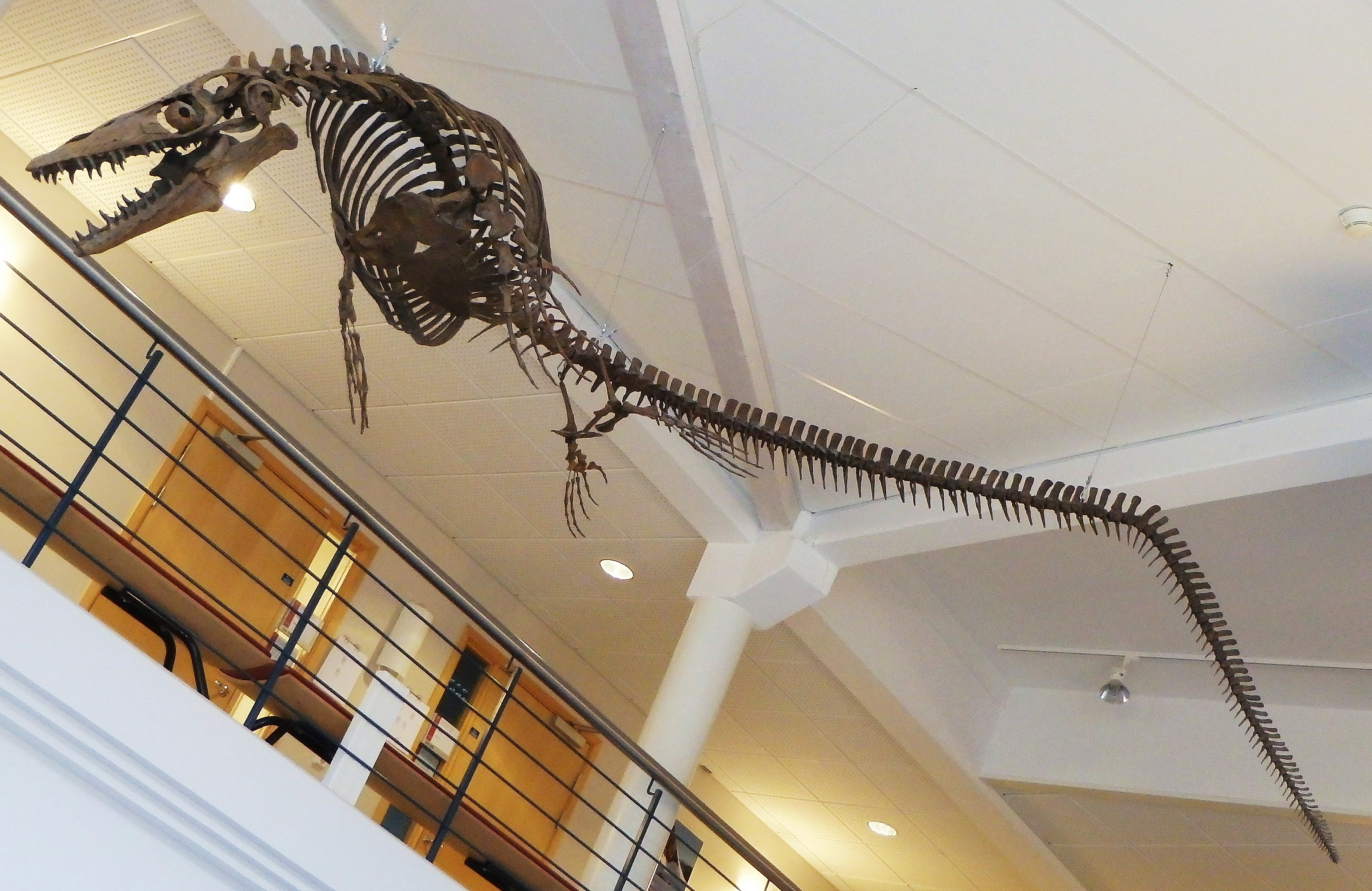 Mounted skeleton of the mosauroid Platecarpus planifrons at Geocentrum (University of Uppsala, Sweden).